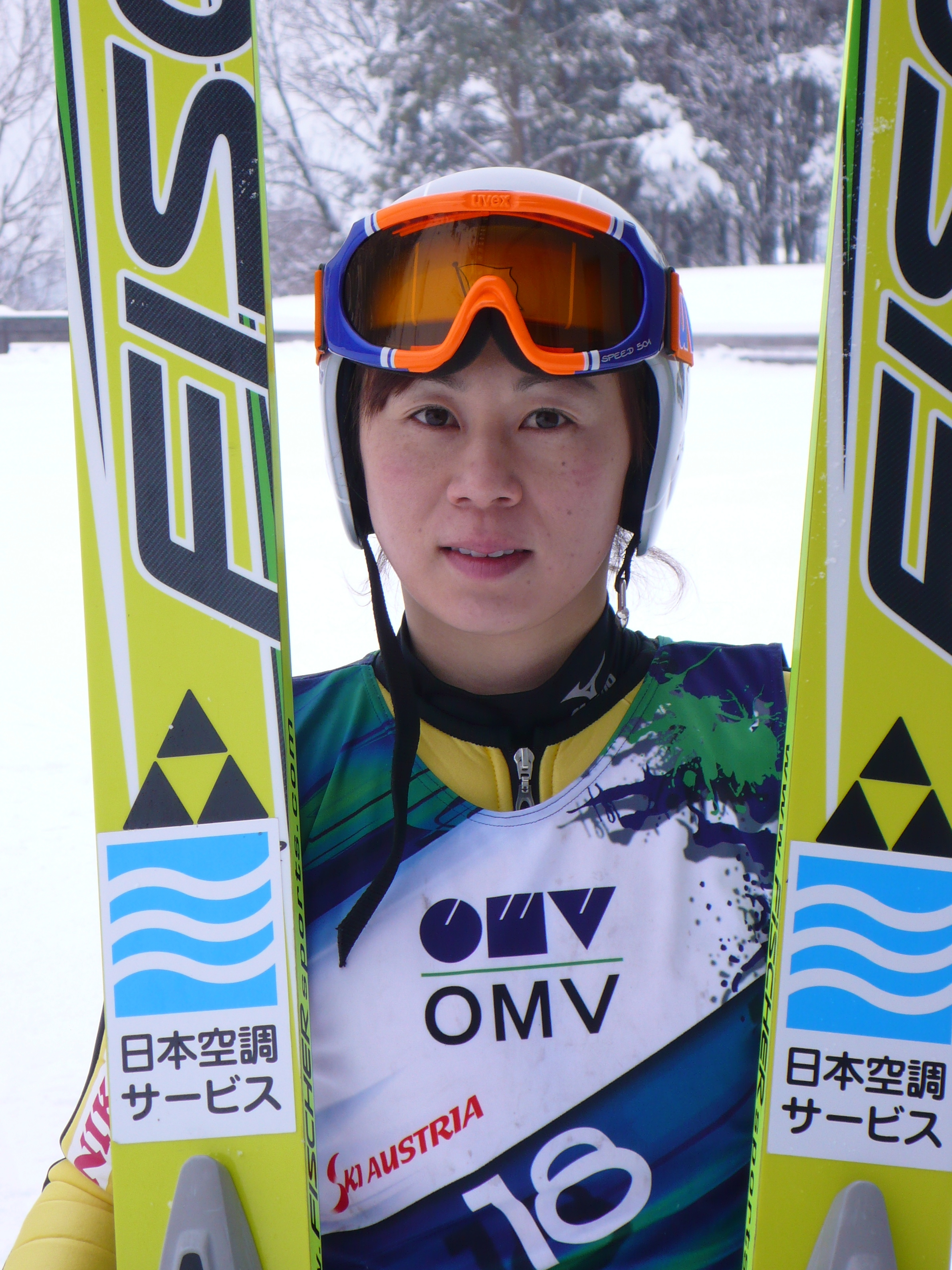 Yoshiko Kasai, at the Ski jumping Continental Cup in Villach on the 2010-02-12.